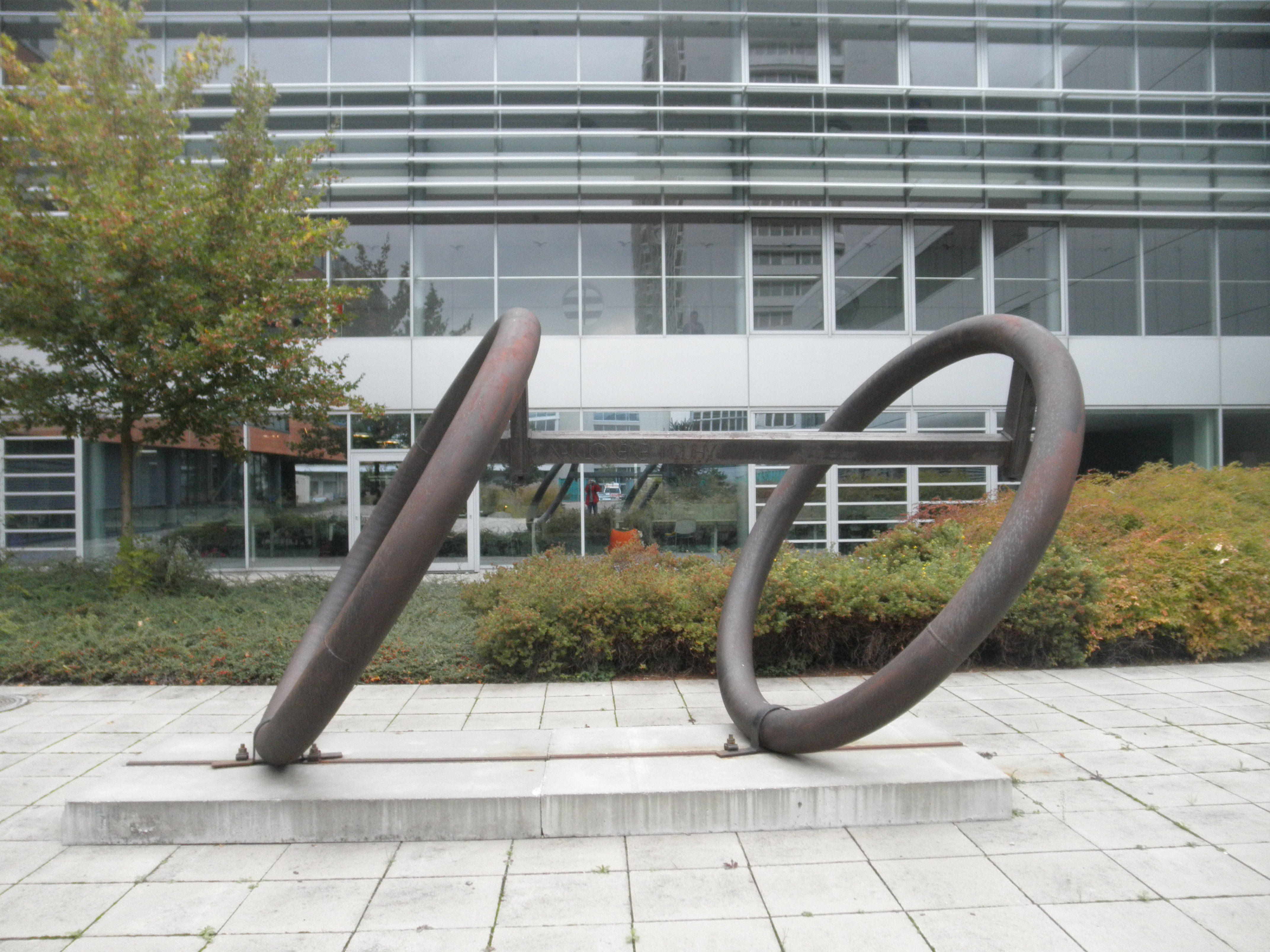 Sculpture Inclined Circles by Vratislav Karel Novák in Masaryk University Campus, Brno, Czech Republic.